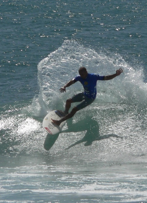 Kelly Slater in action.